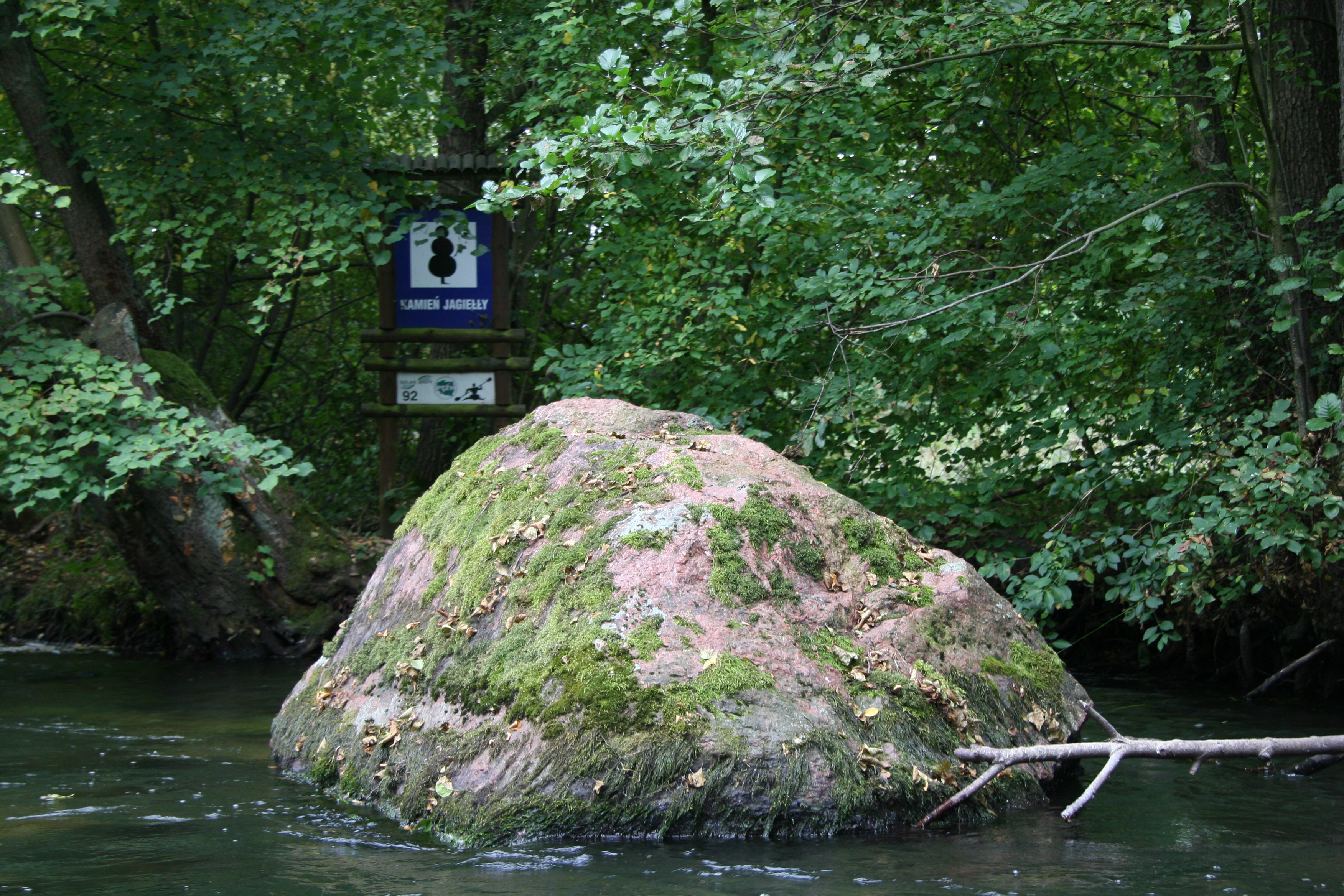 Jagiella Stone